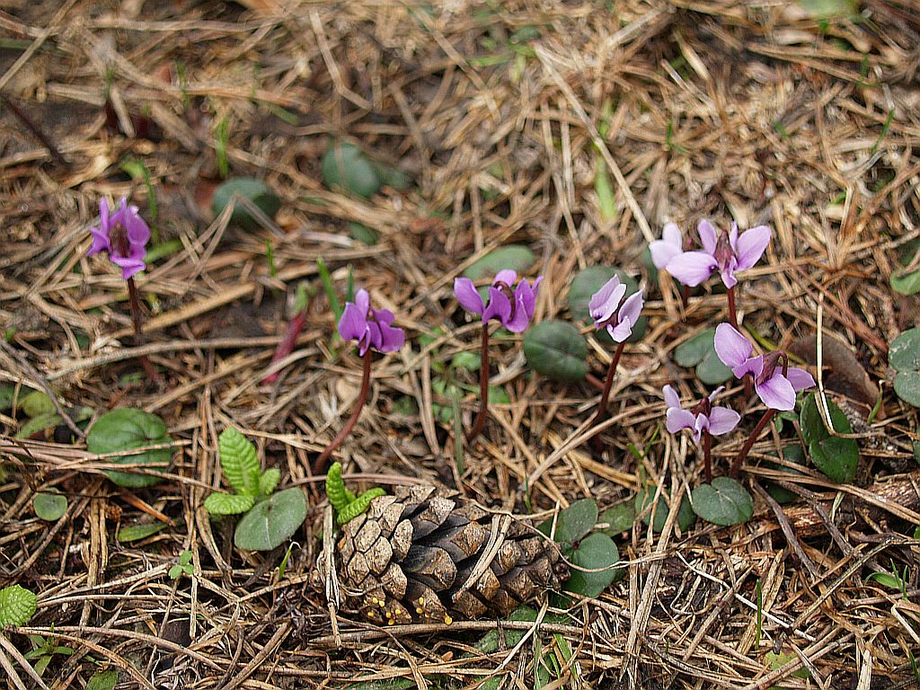 Flowers and leaves of Cyclamen parviflorum at Zigana Pass in the Pontic Mountains of northeast Turkey (also pine cone and needles of Pinus sylvestris, bright green young leaves of Primula vulgaris subsp. sibthorpii)